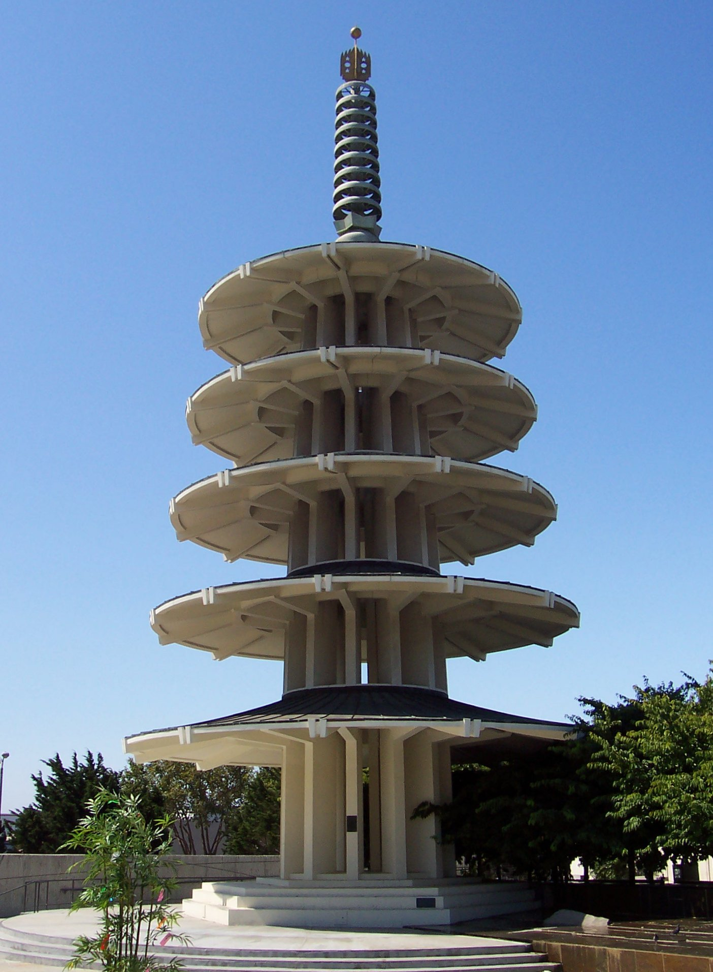 The Peace Pagoda in Japantown, San Francisco is located between Post and Geary Streets at Buchanan.